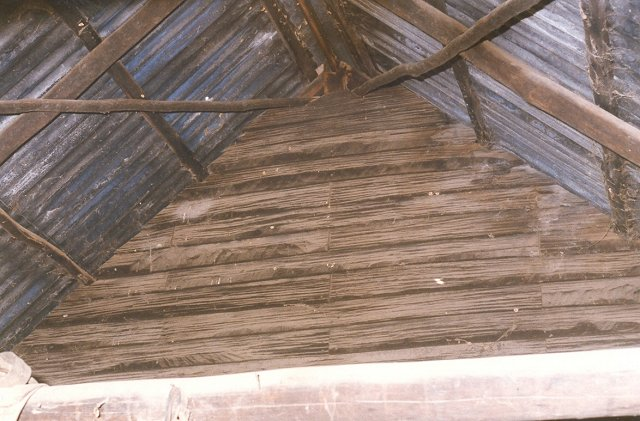 Coppabella Blacksmith Shop: Construction techniques